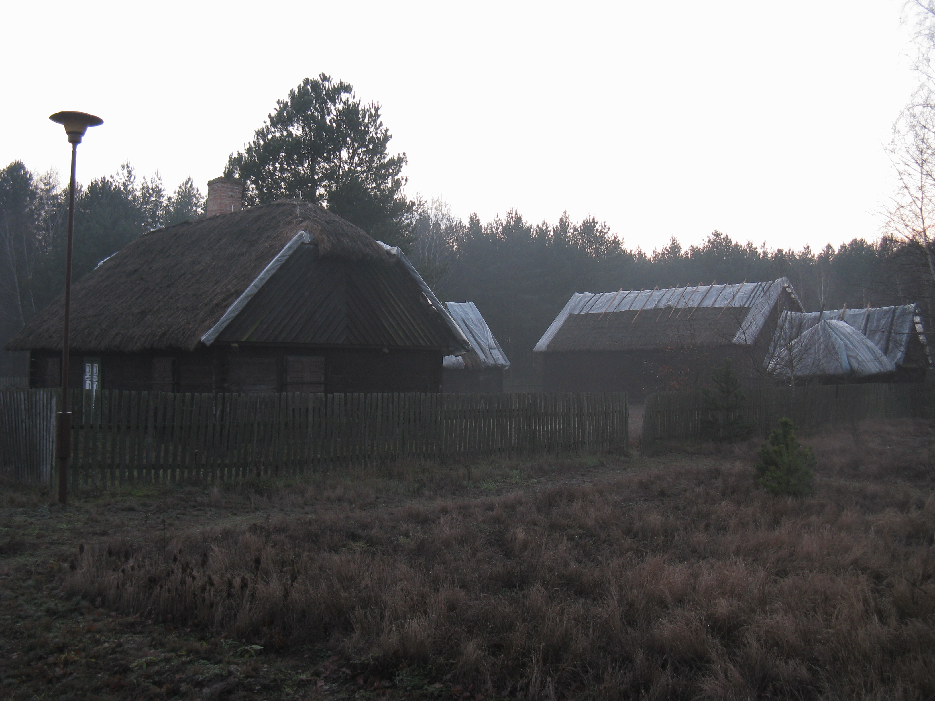 open air museum in Granica